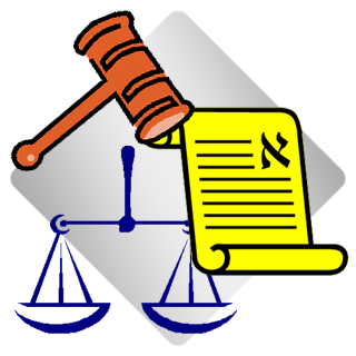 Image for index page of Mishneh Torah at Hebrew Wikisource, now to be used at other languages projects.